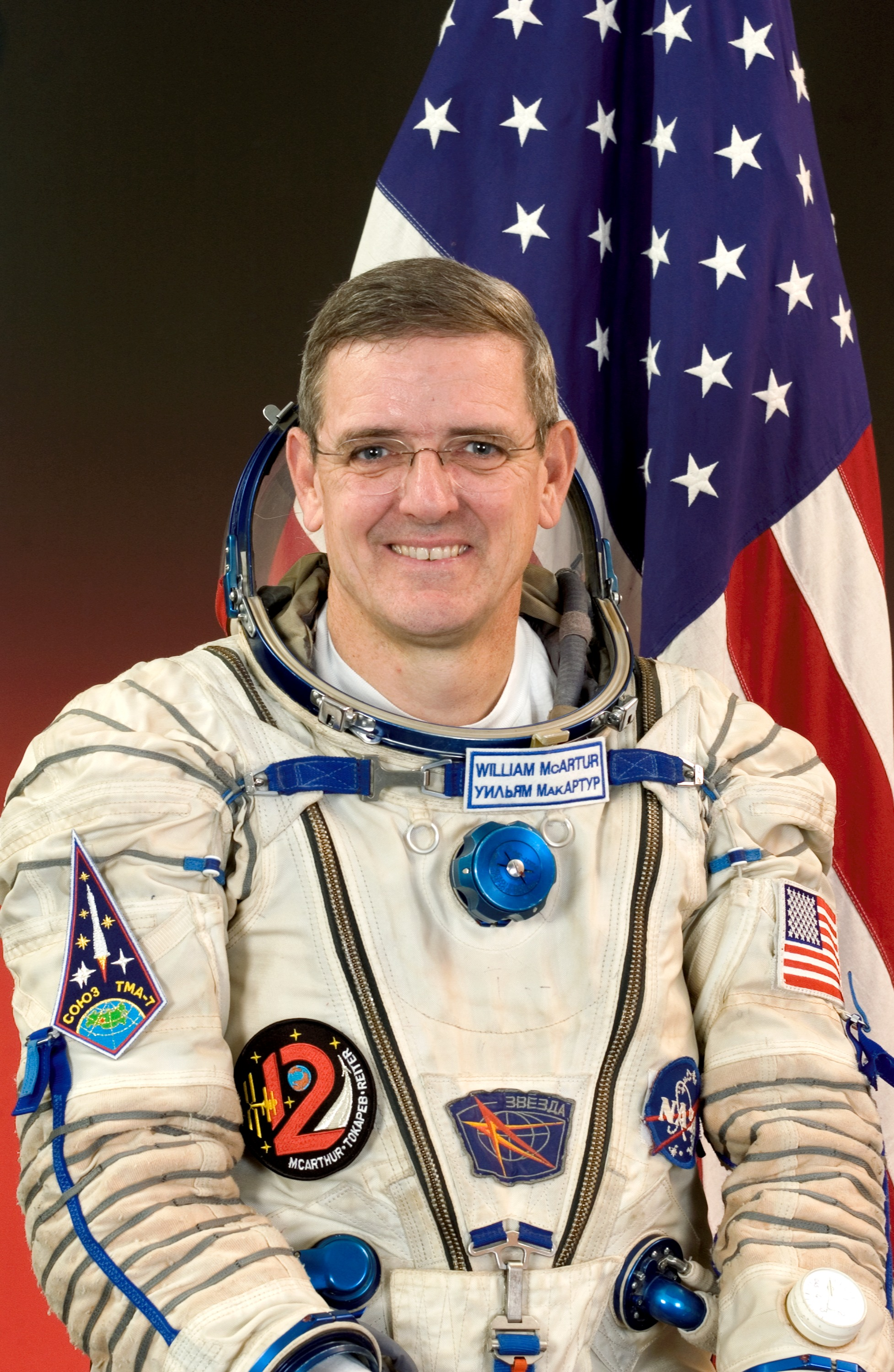 Astronaut William S. McArthur, Jr., Expedition 12 commander and NASA Space Station science officer, attired in a Russian Sokol suit, pauses from a busy training schedule in Star City, Russia to pose for a portrait.